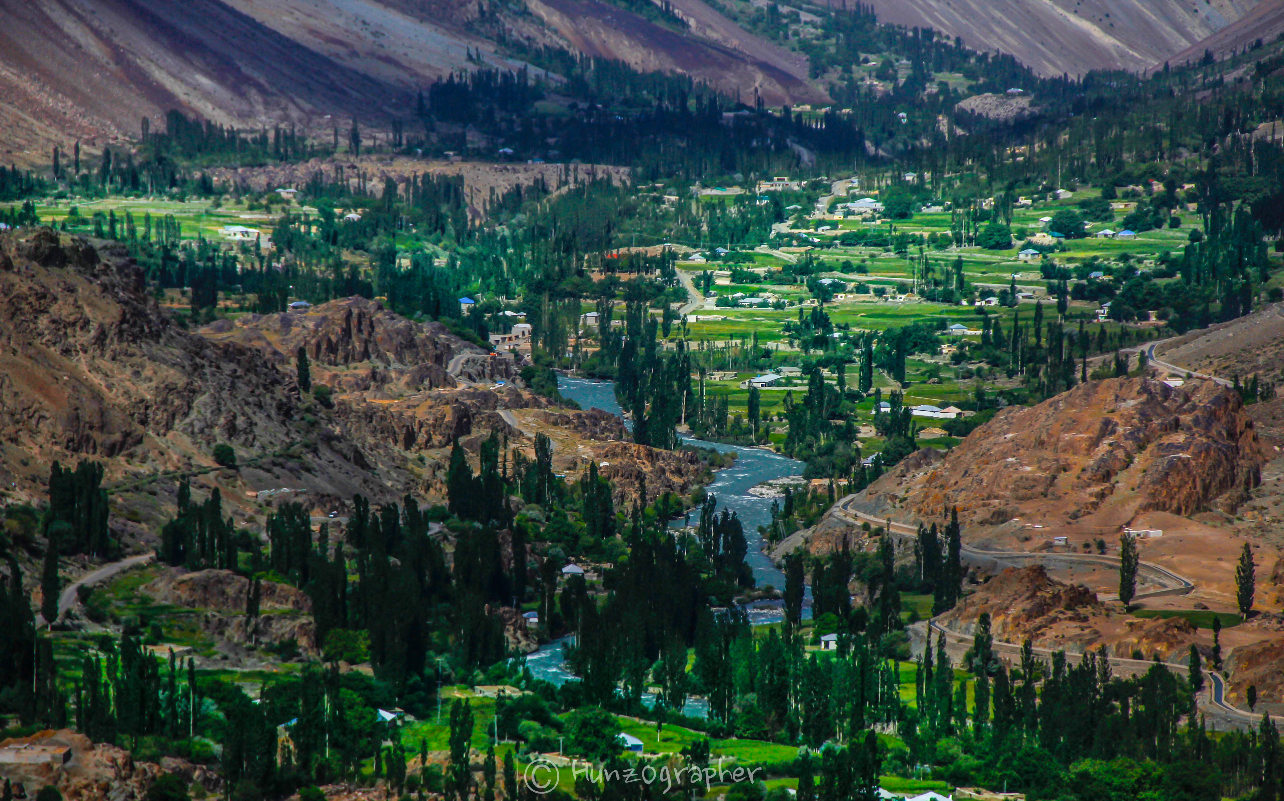 Phander Valley photo by : Hunzographer